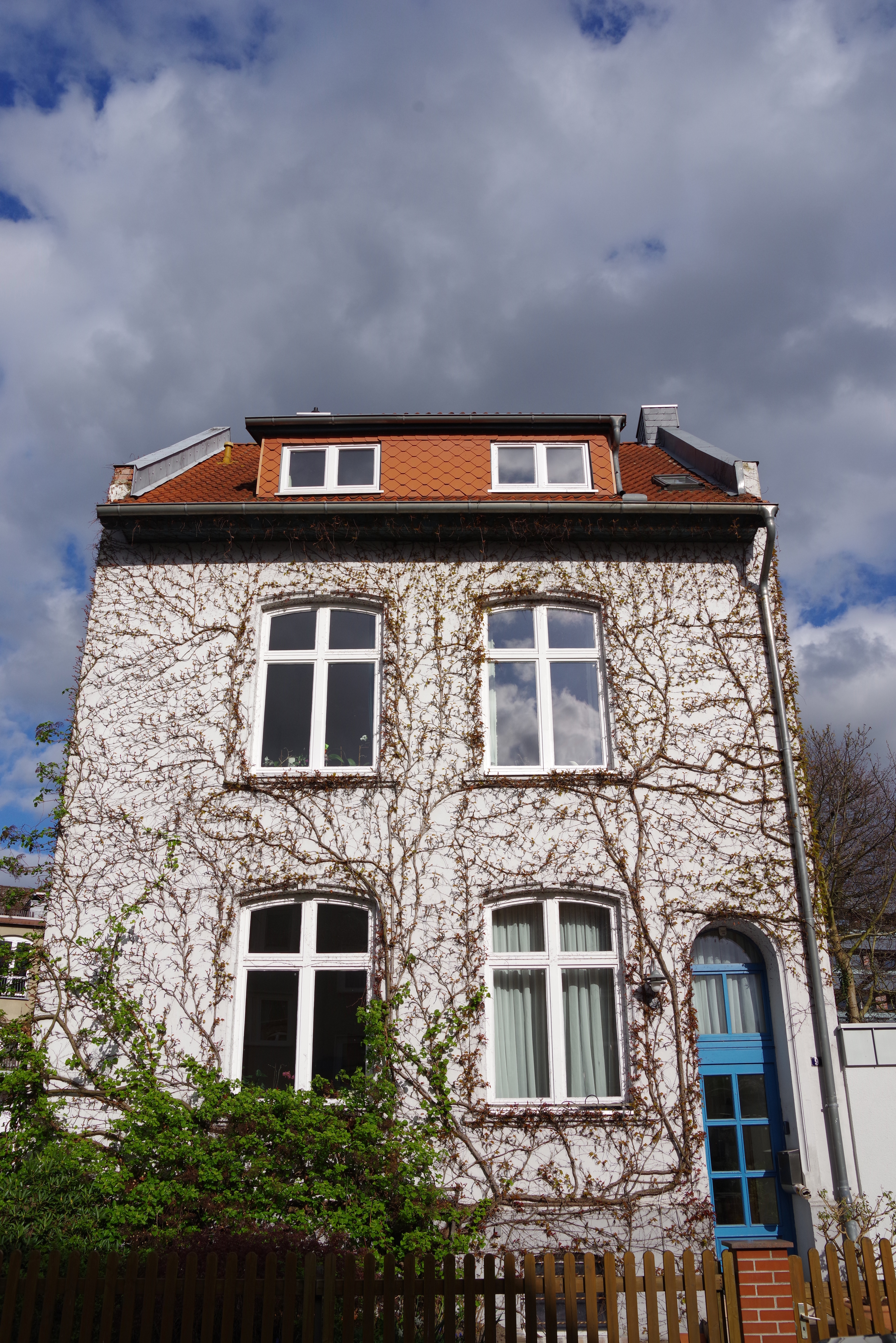 Synagogue